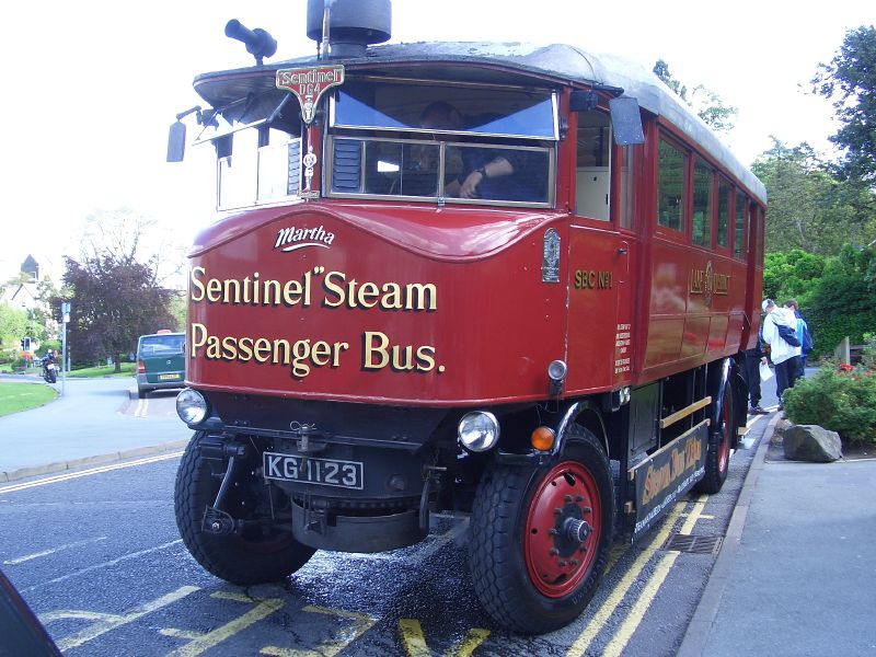 A steam powered coach, Windermere